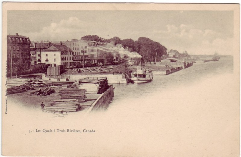 Port de Trois-Rivières en 1890 par P.-F. Pinsonneault.